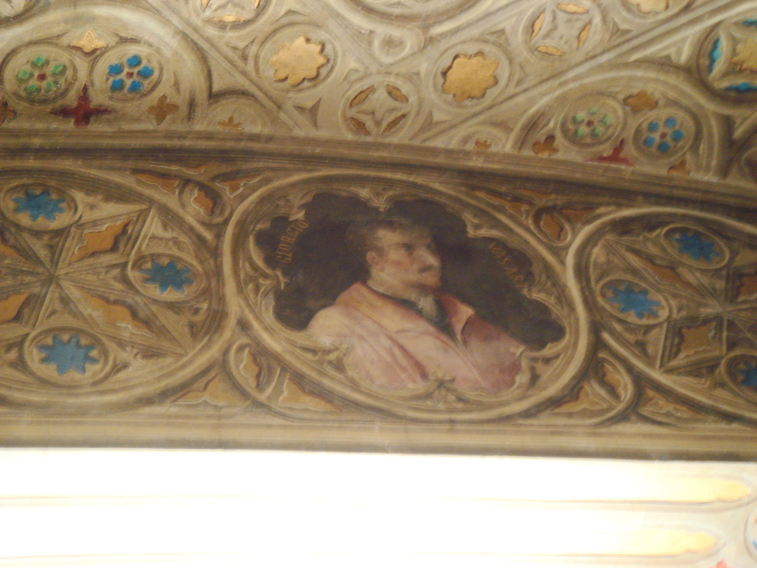 Rome, Italy. .